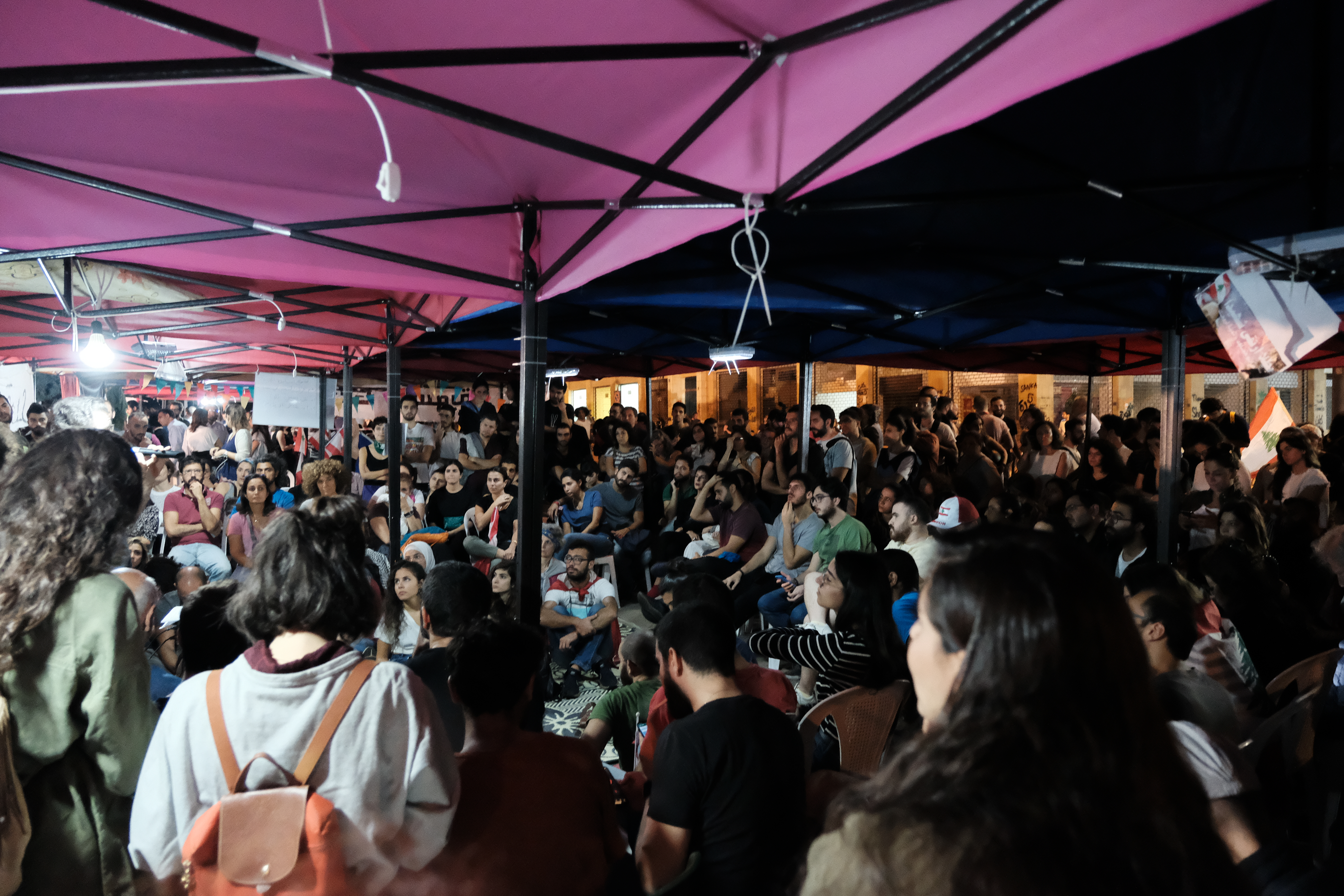 As Lebanese schools universities remain closed during the protests, public teach-ins and debates, organized by secular political groups and advocacy organizations, were offered in Beirut.